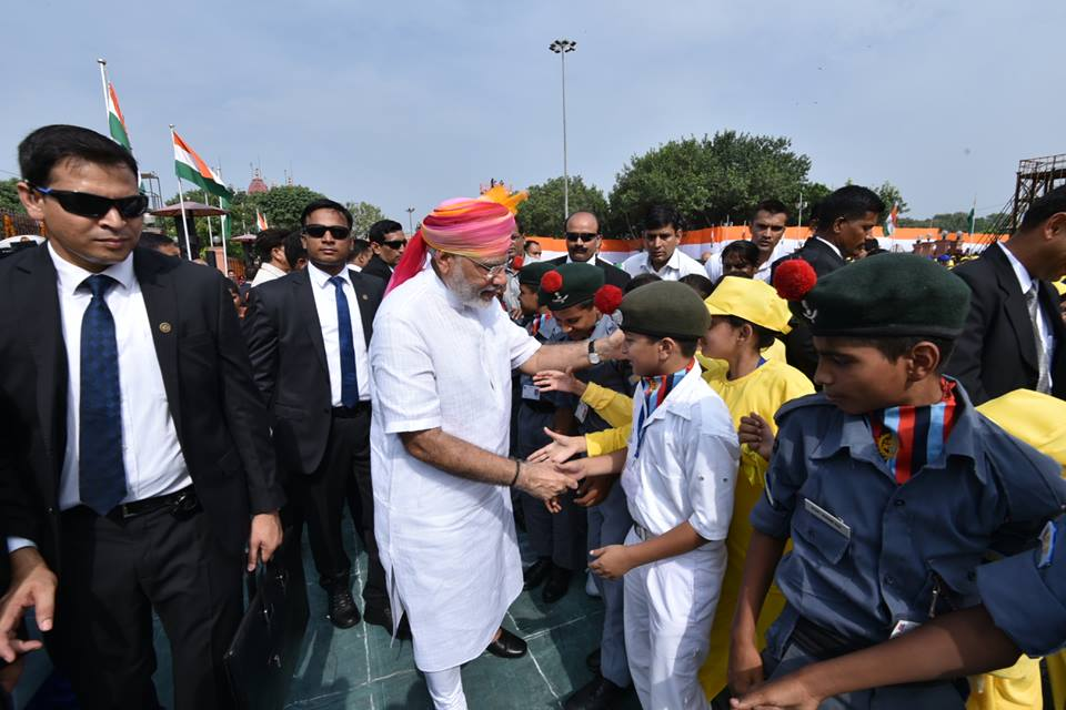 Glimpses from the Independence Day celebrations.